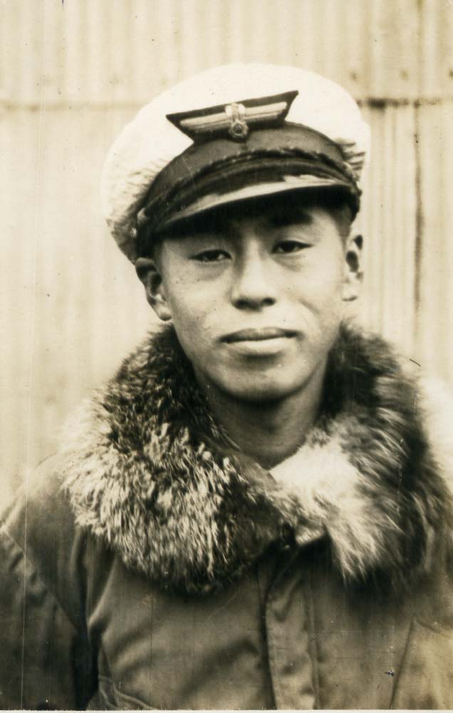 Makoto Simamoto glider pilot（1944）